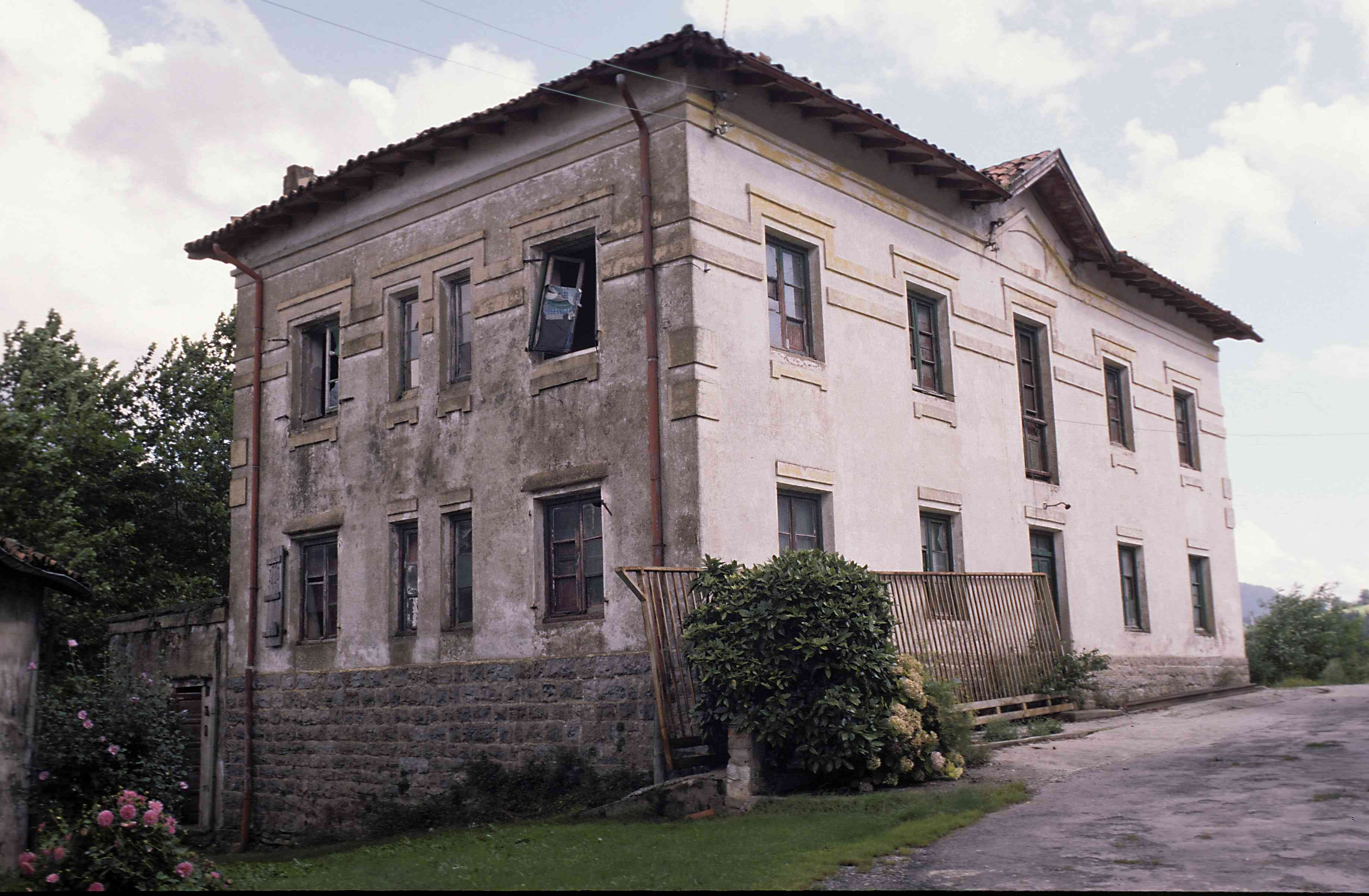 Carabinero barrack of Puntta (Irun, Basque Country), where the last battles for Irun were fought.